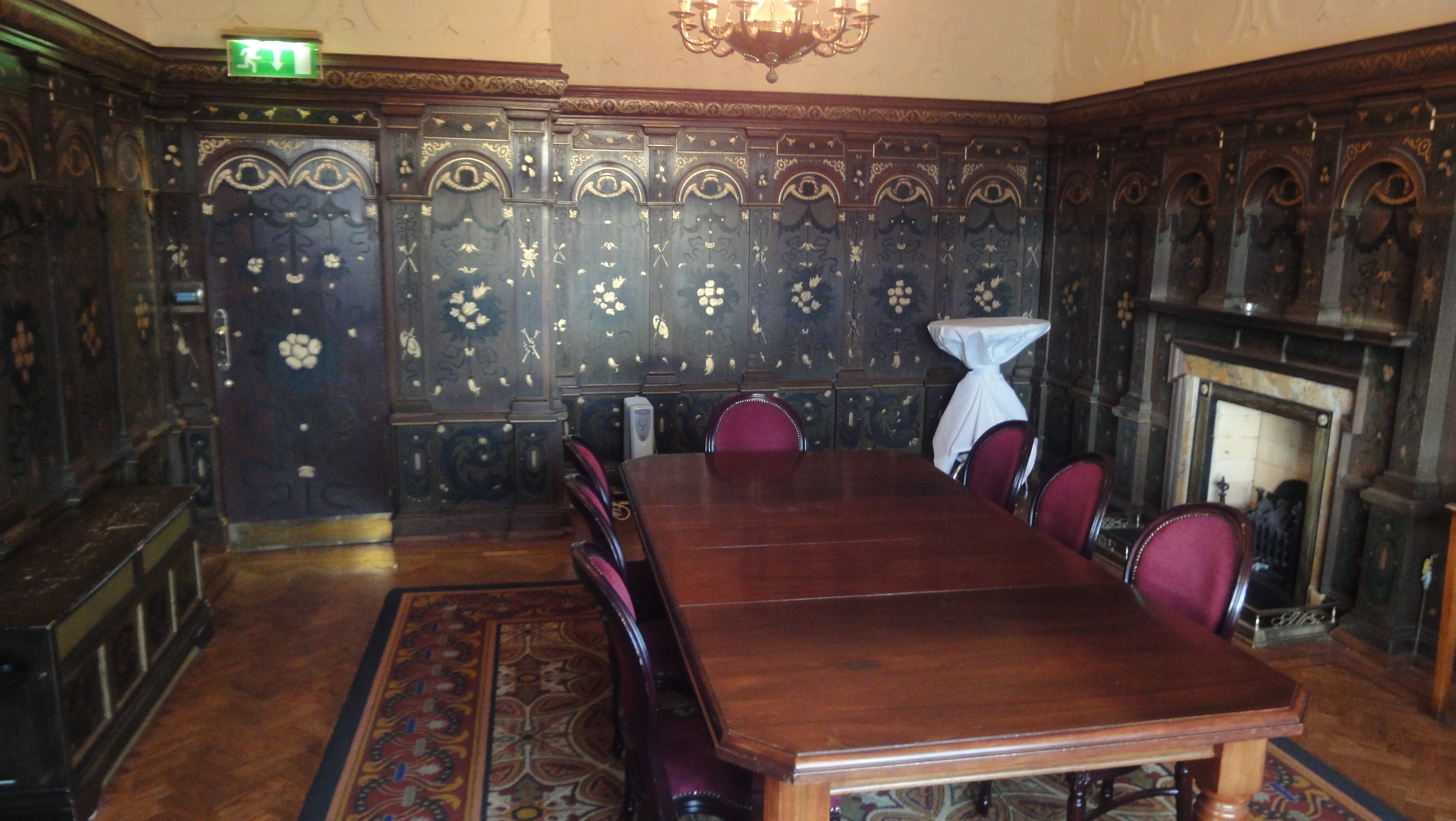 The Jacobean room at St. Helen's, Booterstown, Dublin, Ireland